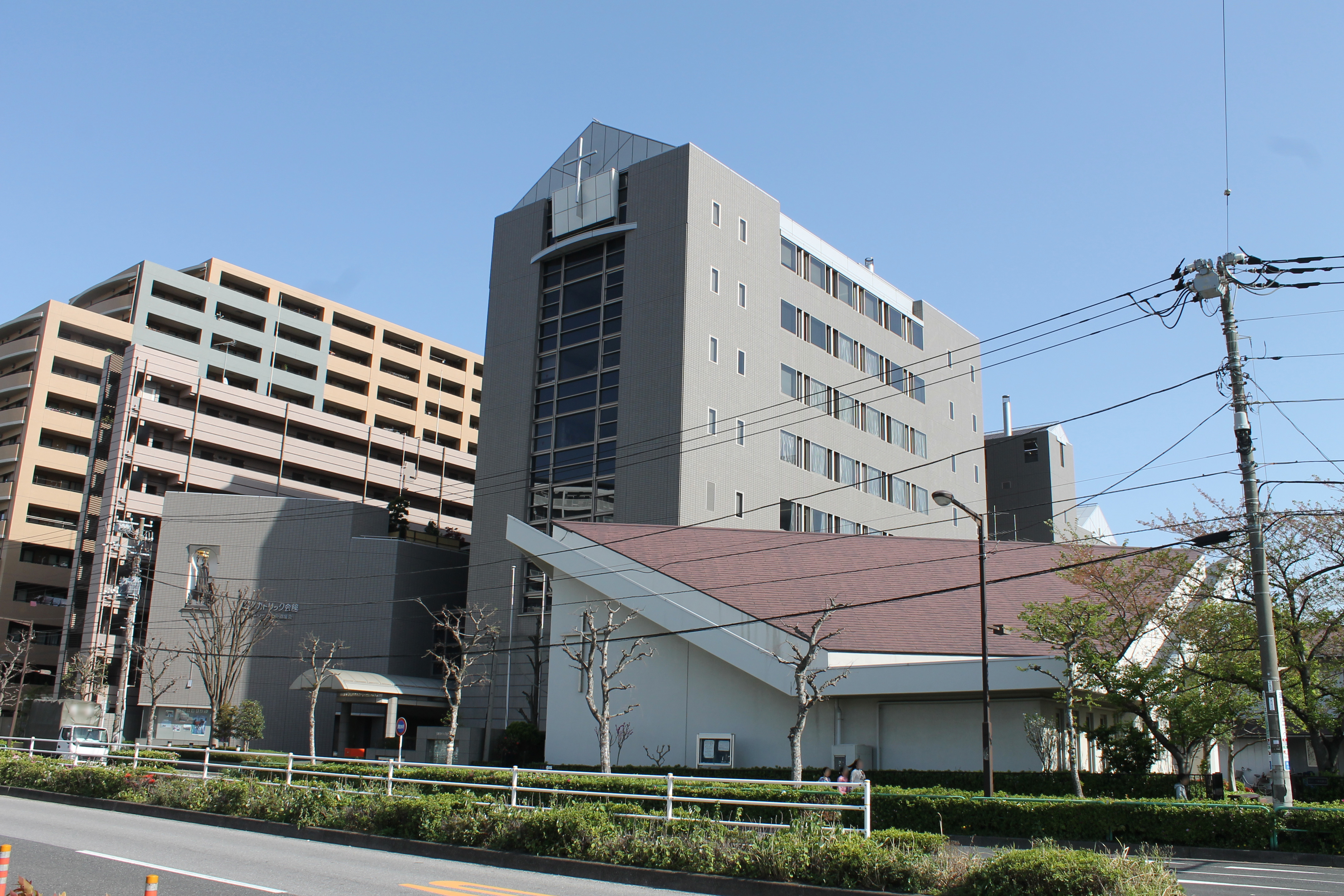 The headquarters of Catholic Bishops' Conference of Japan